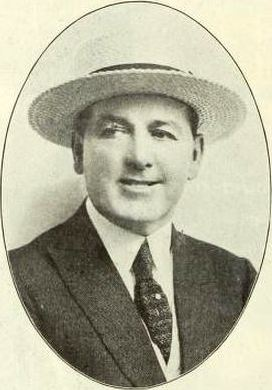 Canadian film director Henry MacRae on page 34 of the April 24, 1921 Film Daily.